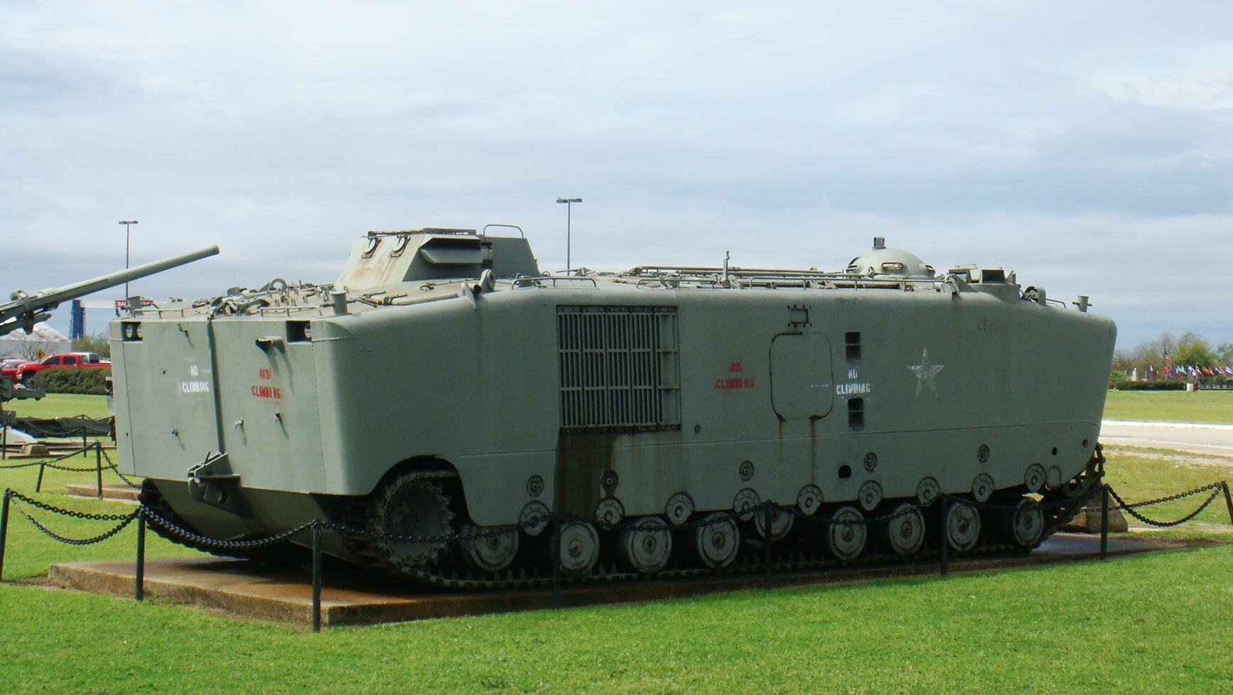 LVTP5A1 in Mobile, AL